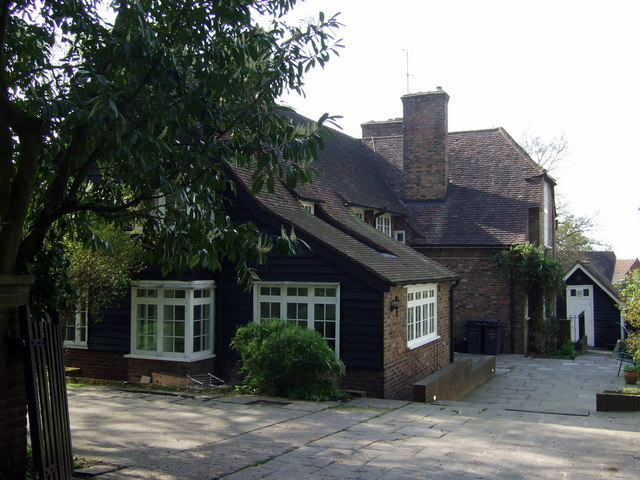 Wyldes Farm This part of the farm is more recent than the Old Wyldes section to the left and was substantially restored by the architect Raymond Unwin from the barn that was added on to the original farmhouse. It is of brick with a massive dormer roof, looking older than it is.